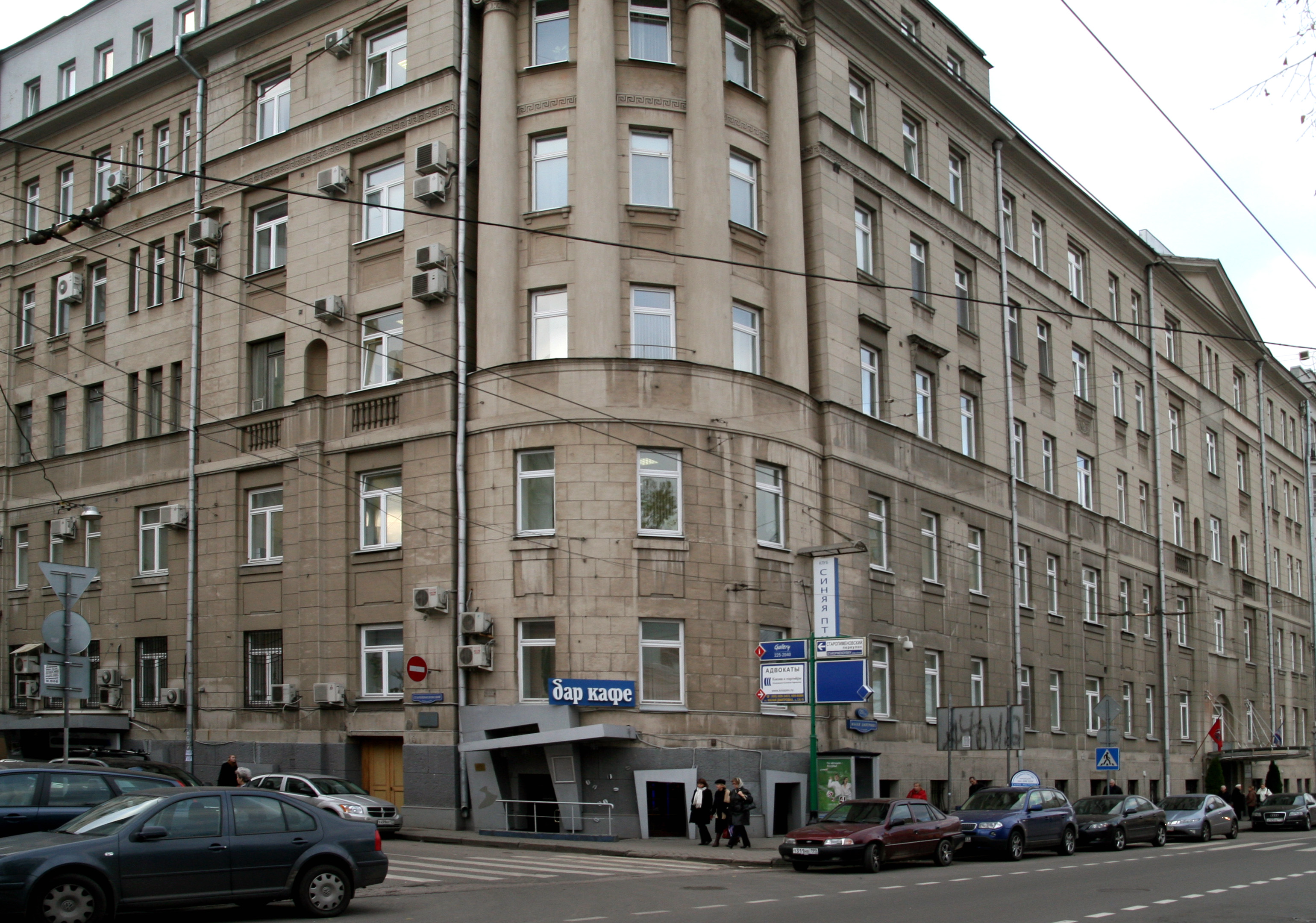 Moscow, Malaya Dmitrovka Street 23